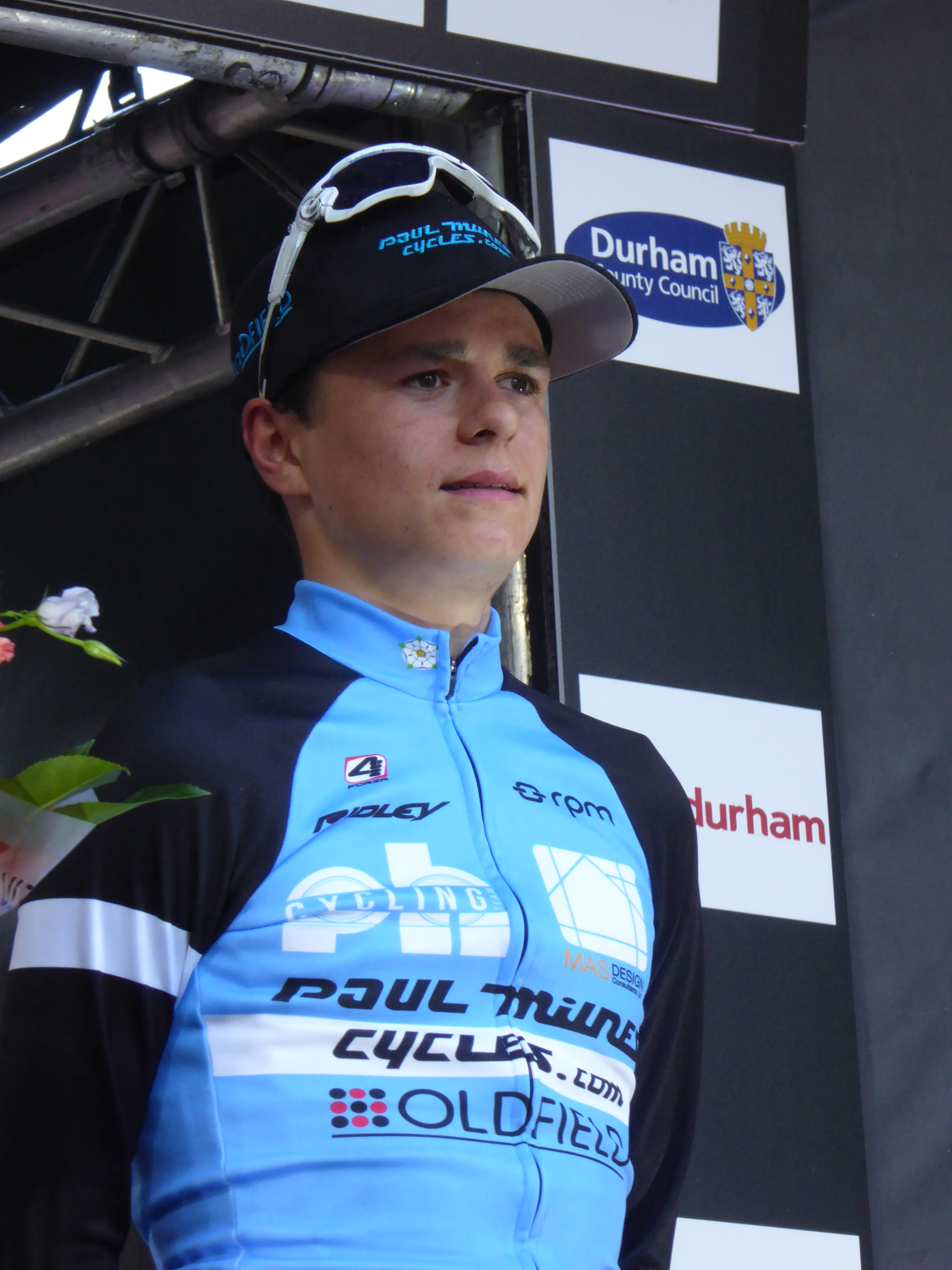 Tom Pidcock (PH Mas-Paul Milnes-Oldfield ERT), after winning Round 9 of the Tour Series in Durham, on 27 May 2017.